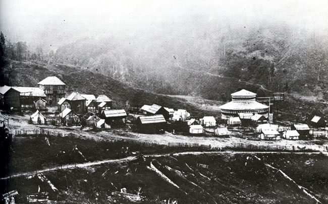 Photo by George Bourne. Auckland Institute and Museum. Uploaded by Mombas 12:56, 29 April 2007 (UTC)